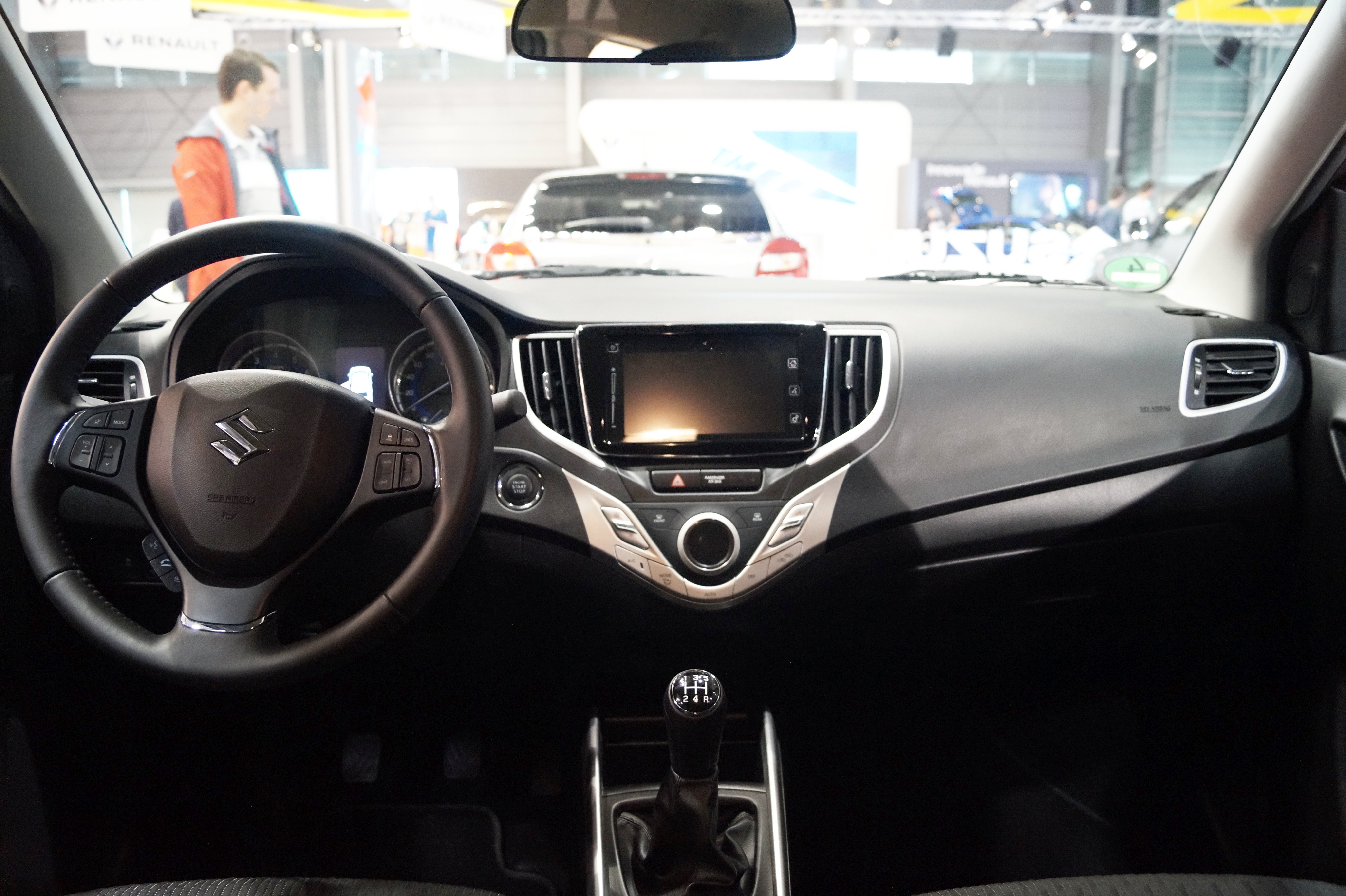 The making of this document was supported by Wikimedia Polska Association, within Wikigrant no. WG 2016-10. English | polski | +/− Wnętrze Suzuki Baleno na Motor Show Poznań 2016